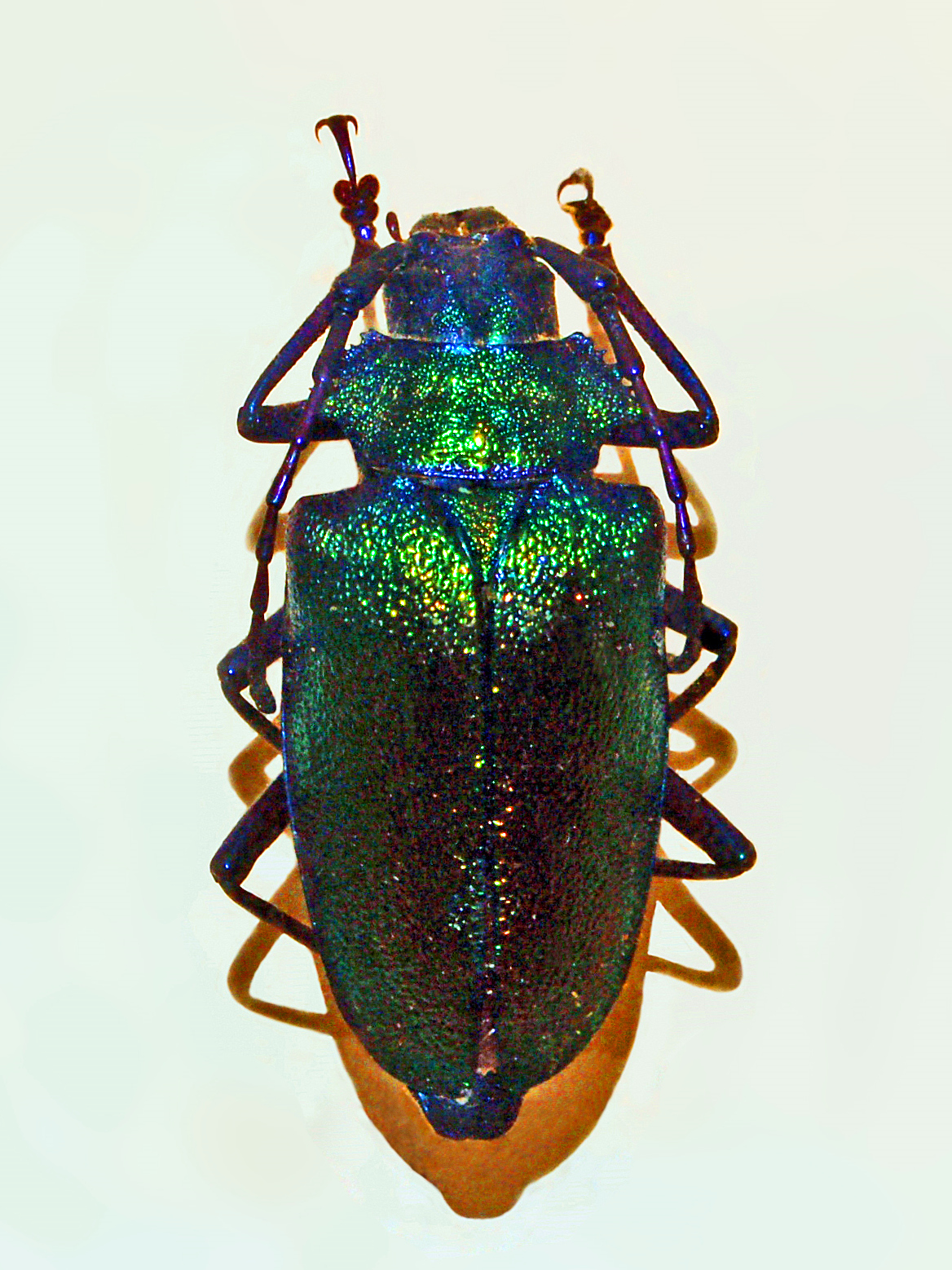 Pyrodes nitidus from Brazil